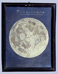 Illustration of Full Moon by Maria Clara Eimmart